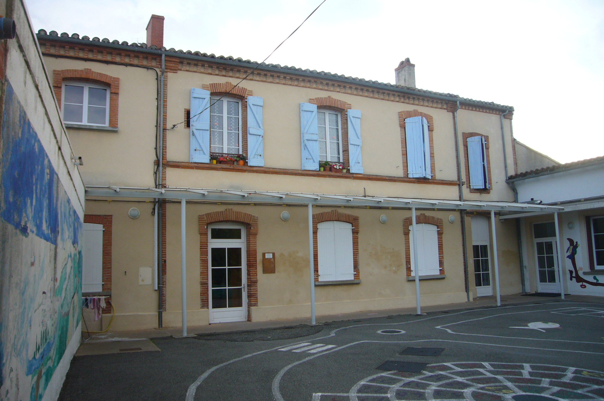 The school in Teyssode